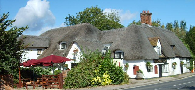 The Barley Mow, Long Wittenham, Oxfordshire (formerly Berkshire), near Clifton Hampden Bridge